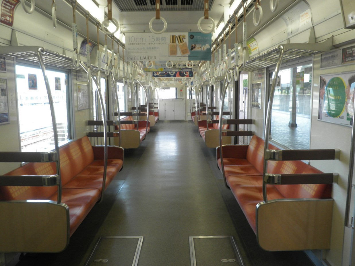 The interior of Osaka Subway Tanimachi Line 30000 series EMU car 32610